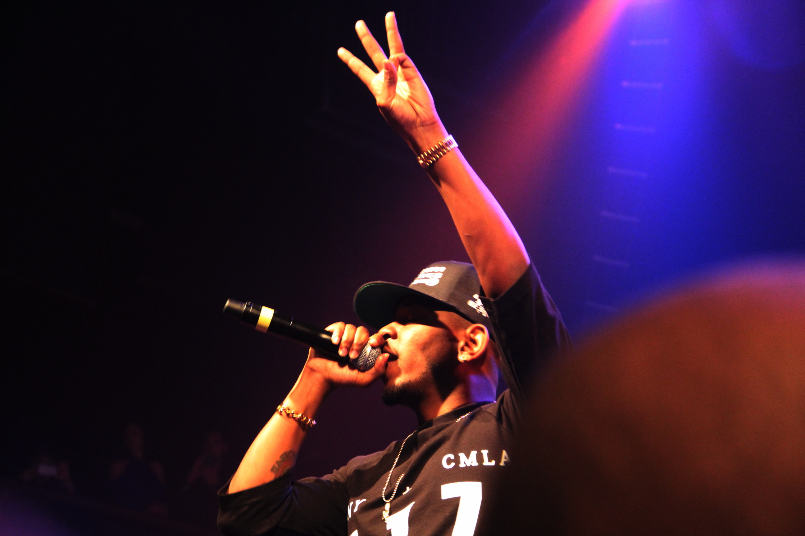 Kendrick Lamar performing on March 15, 2013.